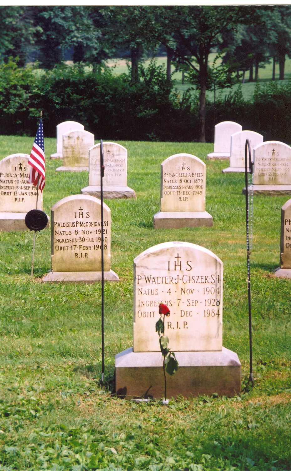 Picture of the tomb of Walter Ciszek in the Jesuit Center of Wernerville, Pennsylvania